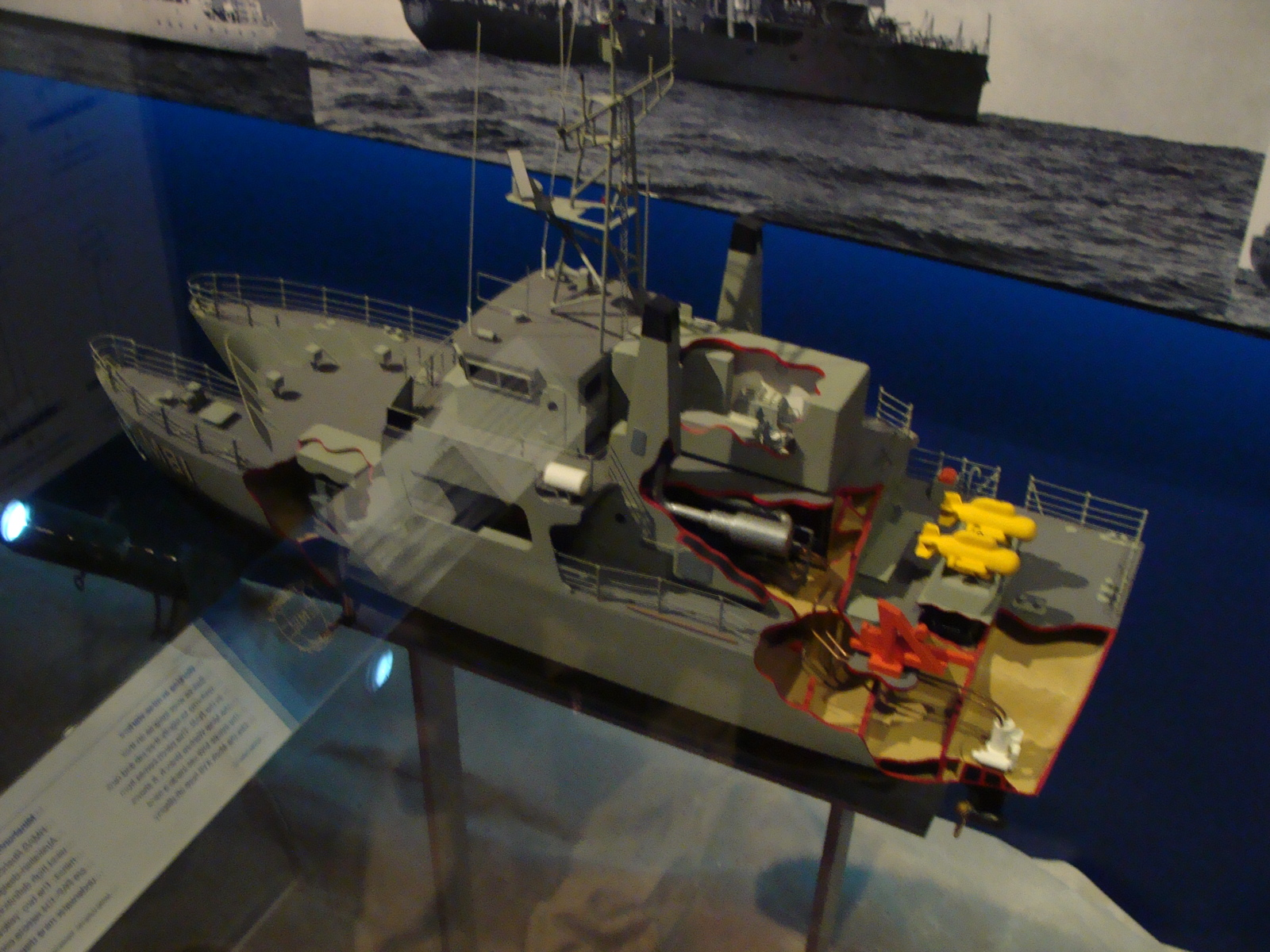 Sydney's Maritime Museum